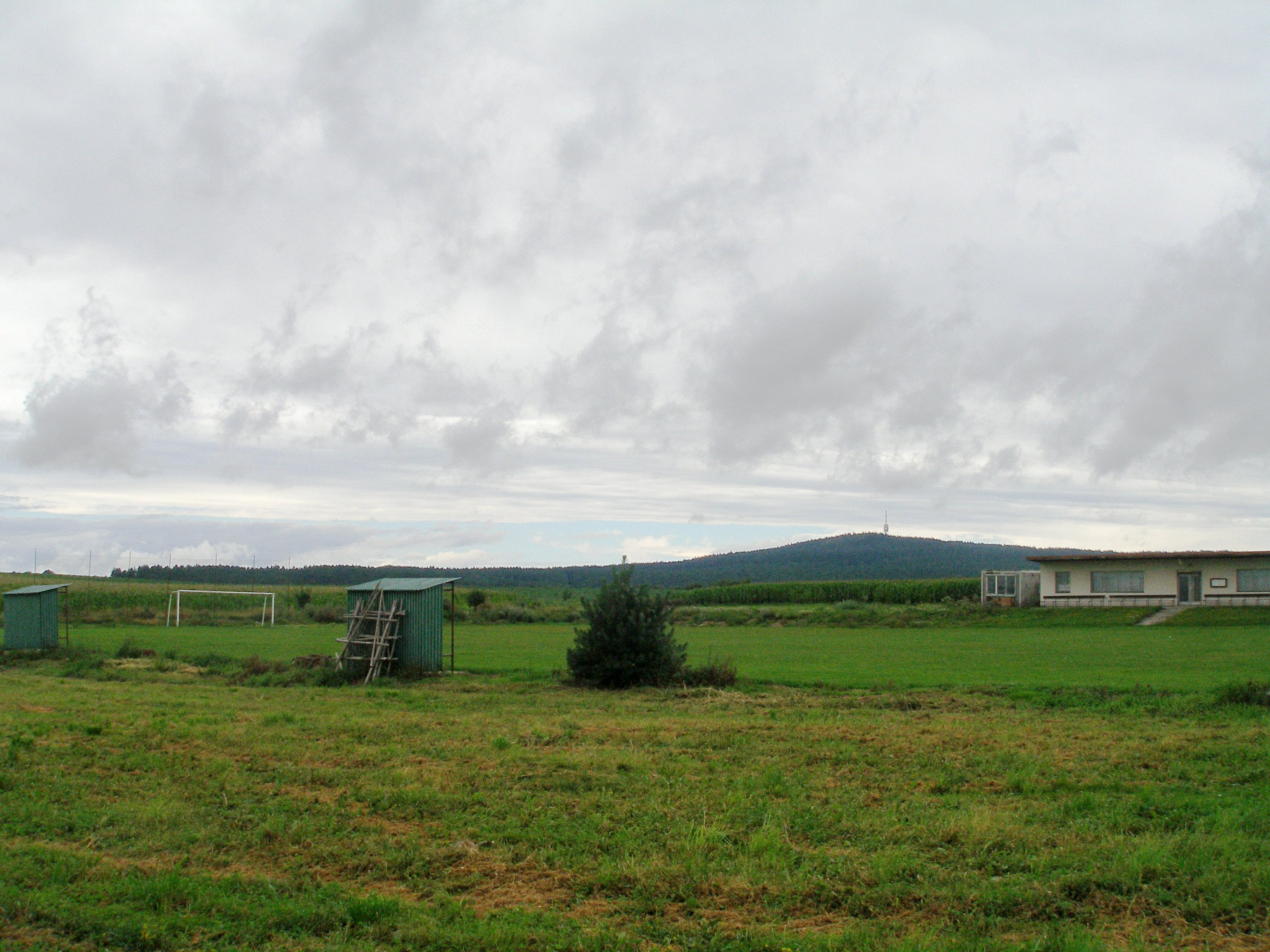 Velká Chyška - the soccer field